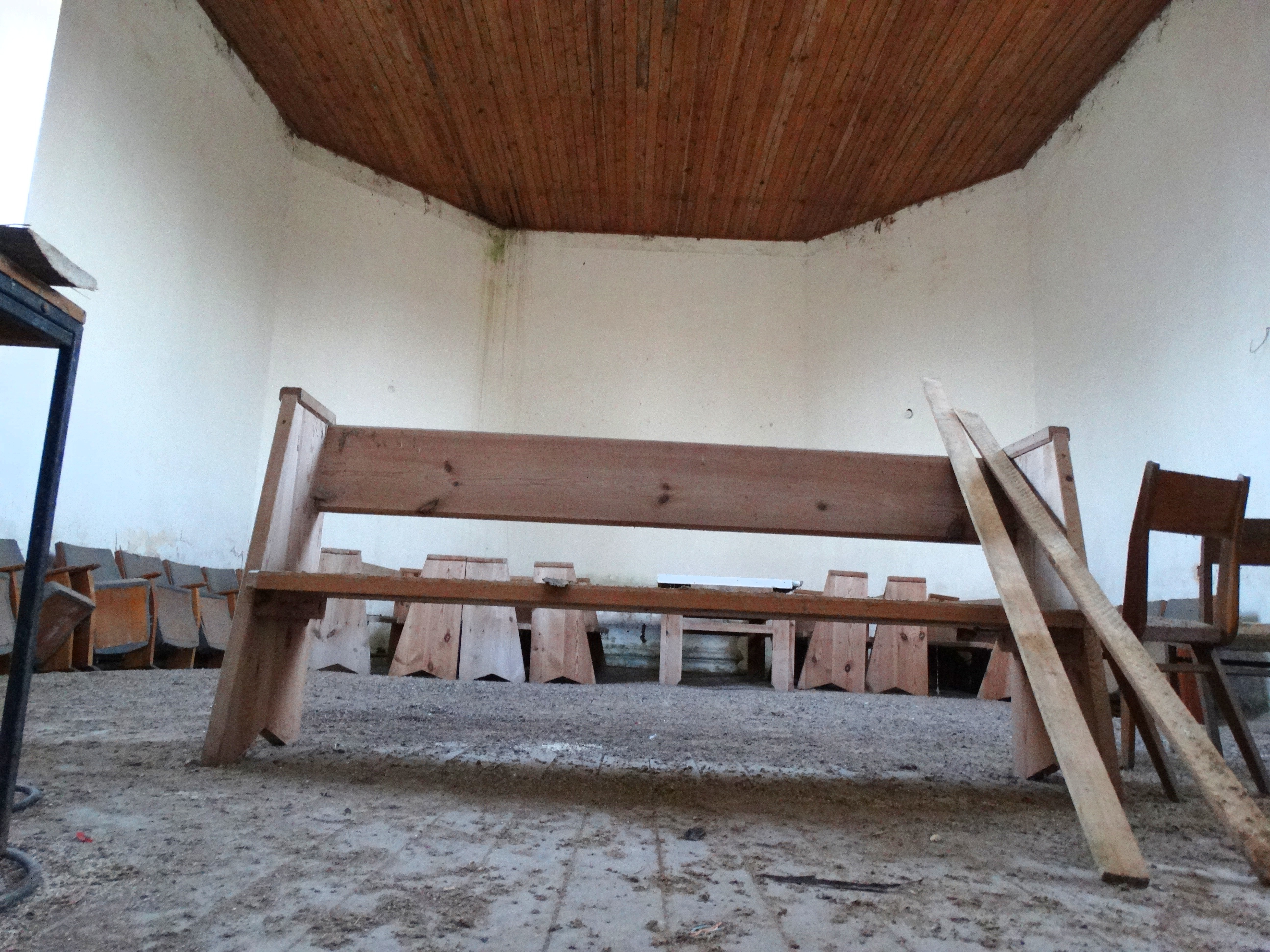 Cemetery chapel, Jieznas, Prienai district, Lithuania